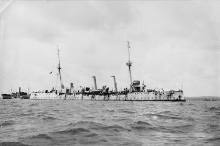 Sourced from: Copyright: The AWM record for this photo states that the copyright status is 'clear'. The photo was taken during 1916. AWM Caption: East Africa, May 1916. Royal Australian Navy light cruiser HMAS Pioneer which had been built in the 19th century and served with the British Navy Imperial Squadron on the Australia Station. On 29 November 1912 it was transferred to the Australian Navy and commissioned as a tender. Later becoming a patrol ship it was eventually paid off on 22 October 1916 and served as an accommodation ship at Garden Island until 1922. (Donor A. Jose)